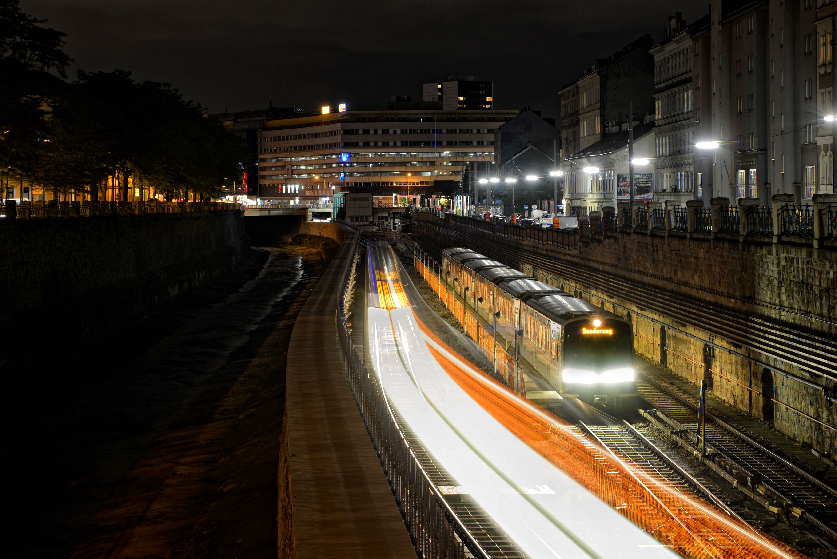 Two trains (Type V) between the stations Längenfeldgasse and Schönbrunn (Line U4).